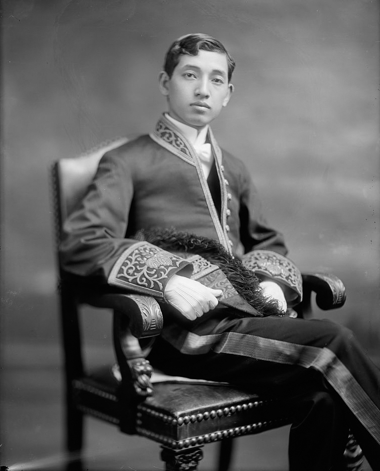 Hiroshi Saitō (斎藤博)